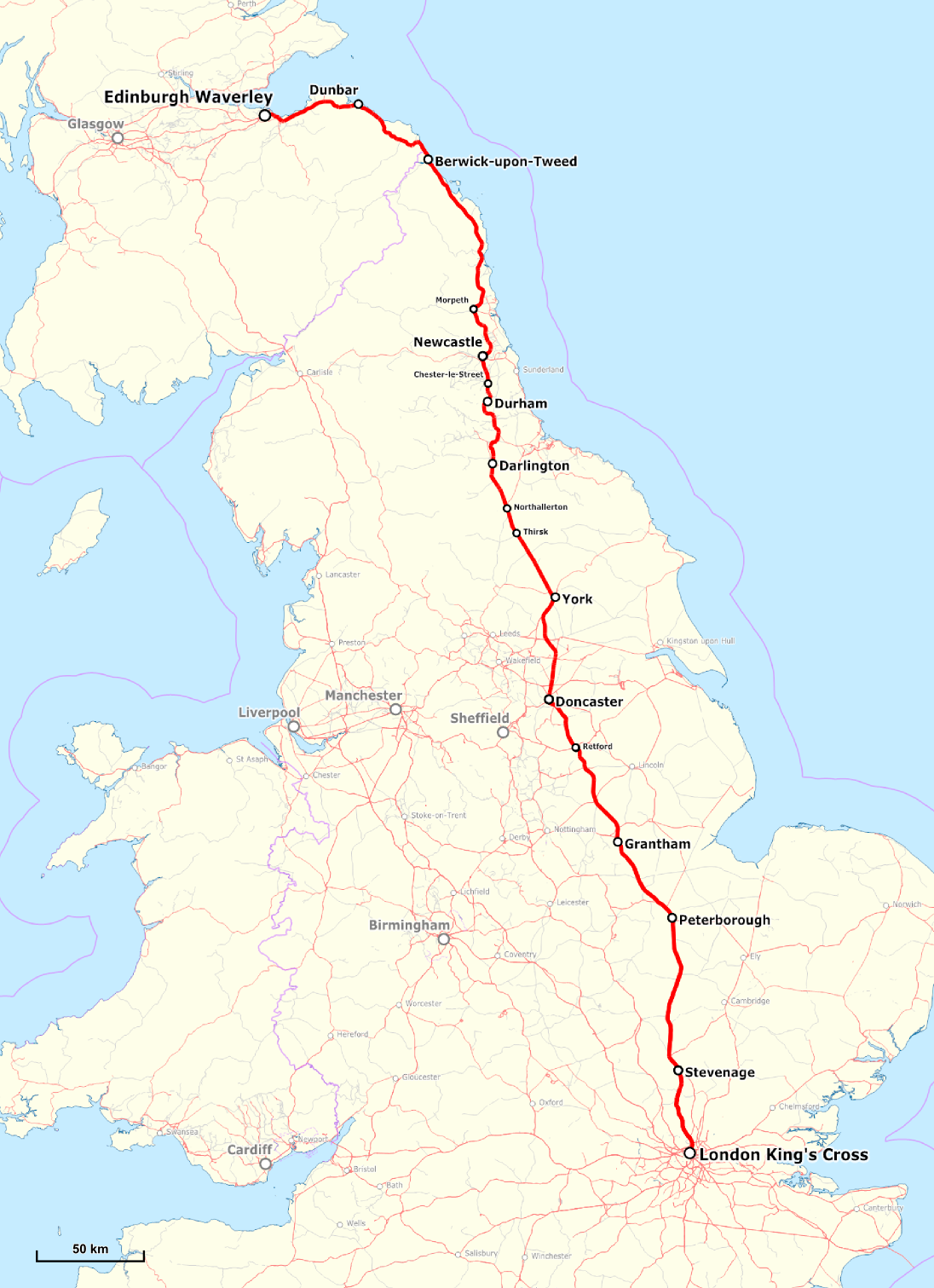 Map of the East Coast Main Line in UK